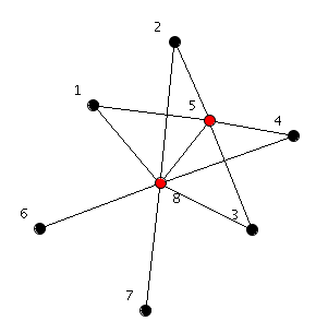 I created this file as an example of a threshold graph.